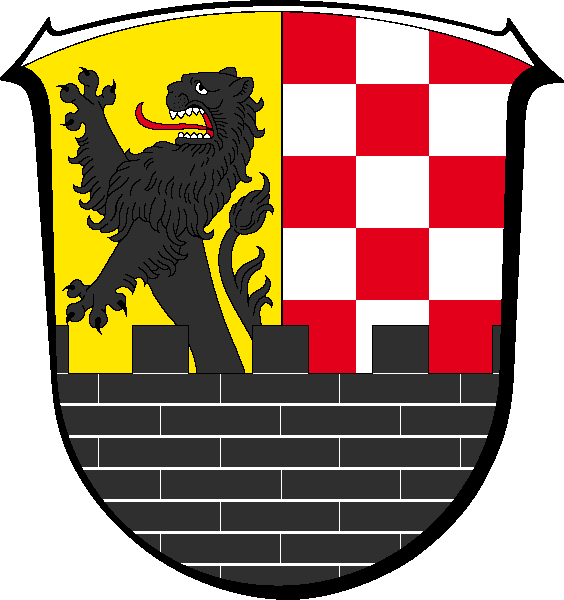 Proposed coats of arms for the shortlived municipality of Steinbachtal (Odenwald).